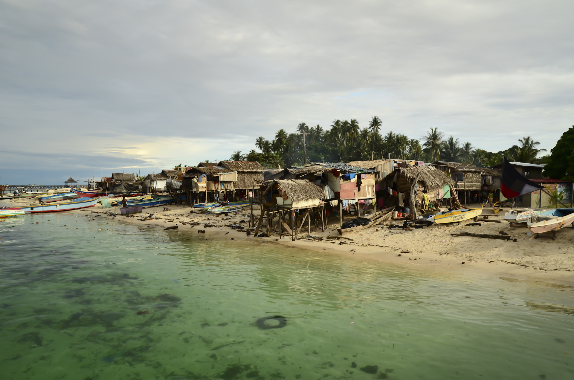 Mabul Village